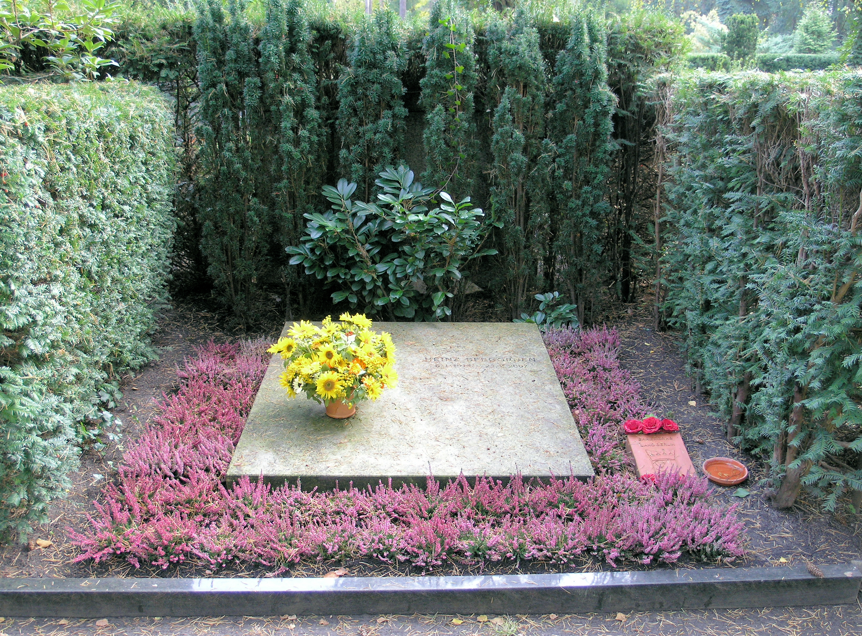 Grave of honor, Heinz Berggruen, Hüttenweg 47, Berlin-Dahlem, Germany Koordinate:52°27′20″N 13°15′49″E / 52.45556°N 13.26361°E